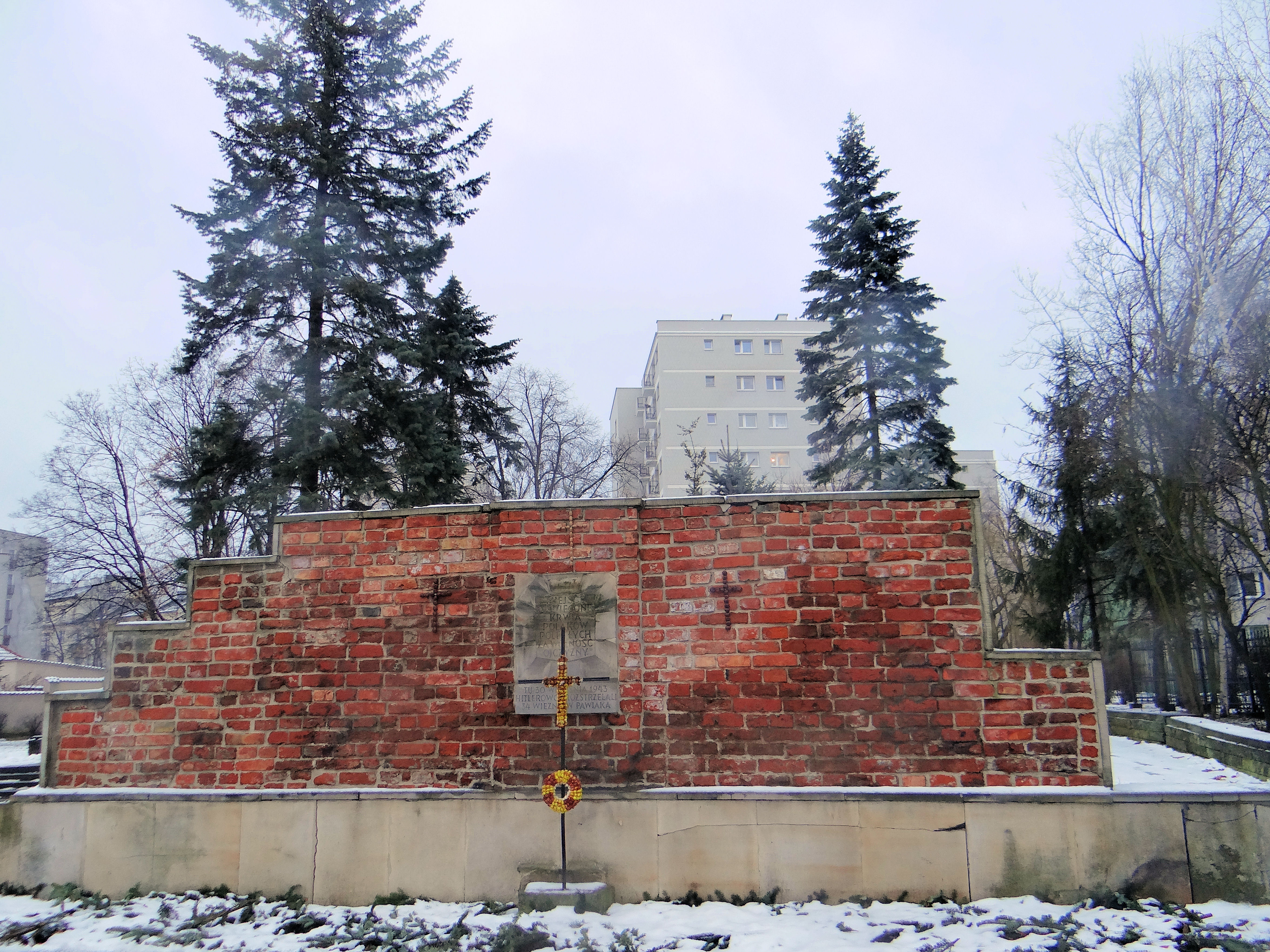 Place of National Memory at Solecki Market Square in Warsaw